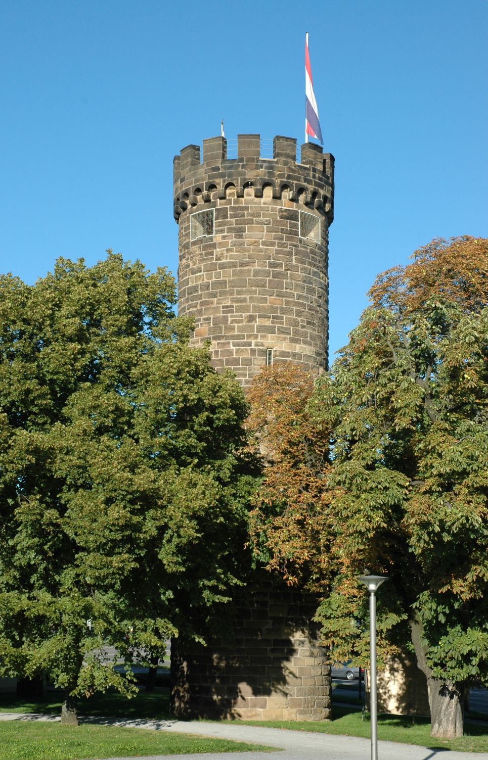 „Bollwerksturm“ tower in Heilbronn (Germany)